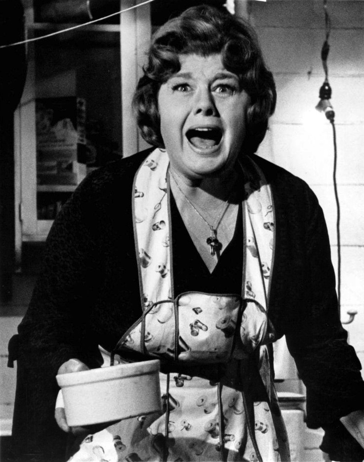 Publicity photo of American actress Shelley Winters promoting the NBC television airing of the 1971 feature film What's the Matter with Helen?.